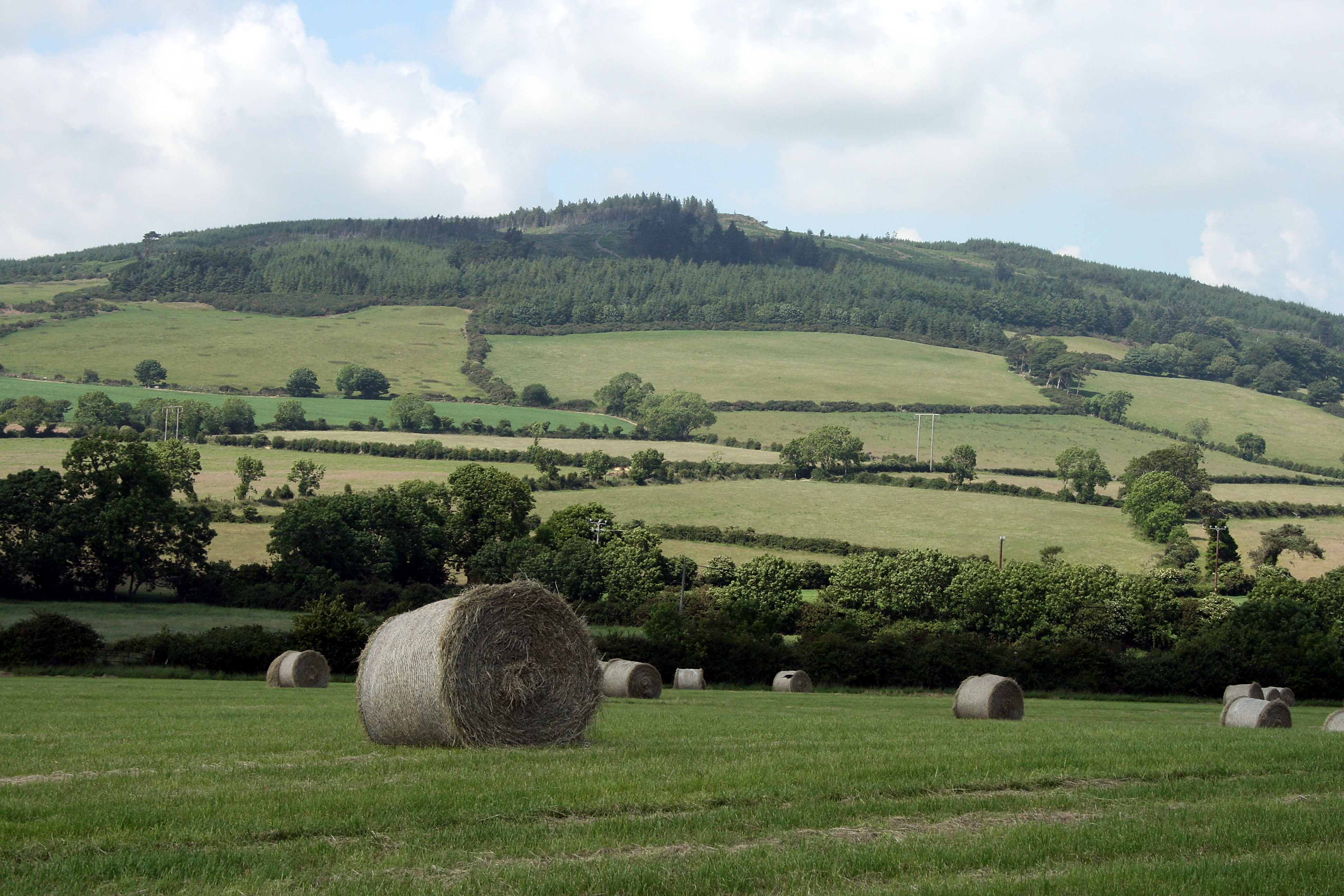 Eastern slope of "Arklow Hill" just north of Arklow, County Wicklow, Ireland.